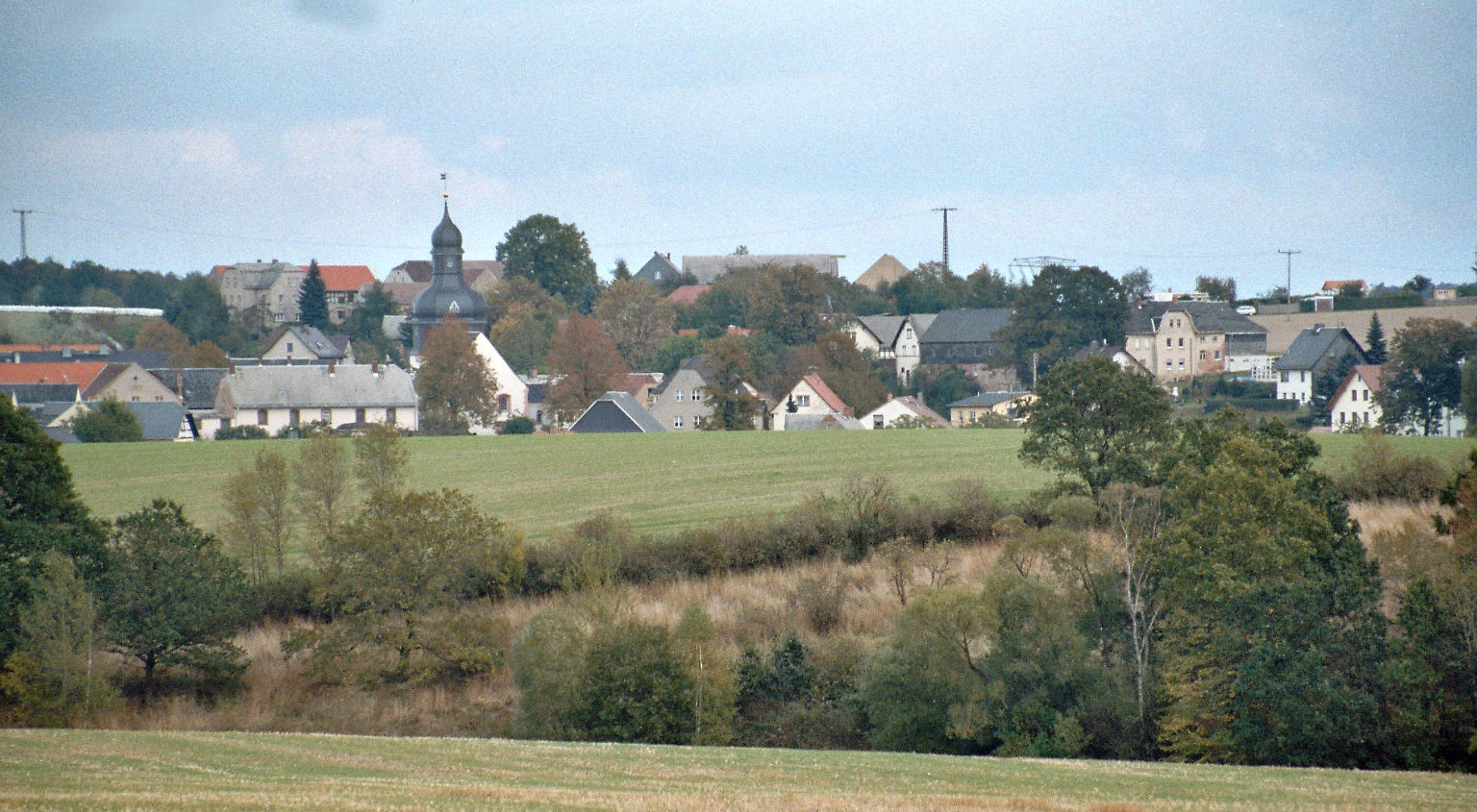 Linda next to Gera, view to the village (telephoto)